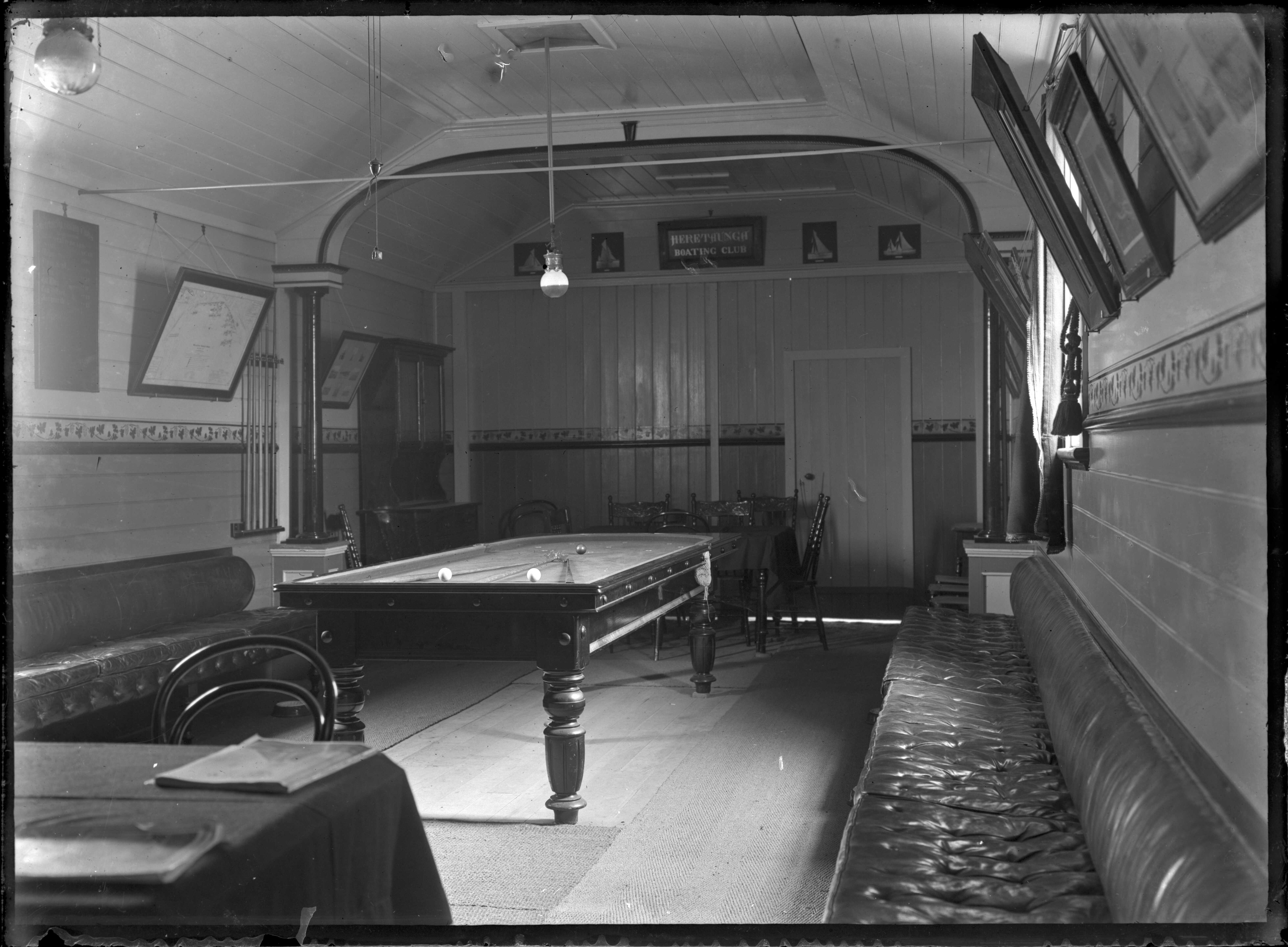 Interior of the Heretaunga Boating Club shed showing a pool table and bench seating. Photograph taken by Albert Percy Godber. Dated from the album in which the original print is filed, which contains photographs taken between 1915 and 1916.